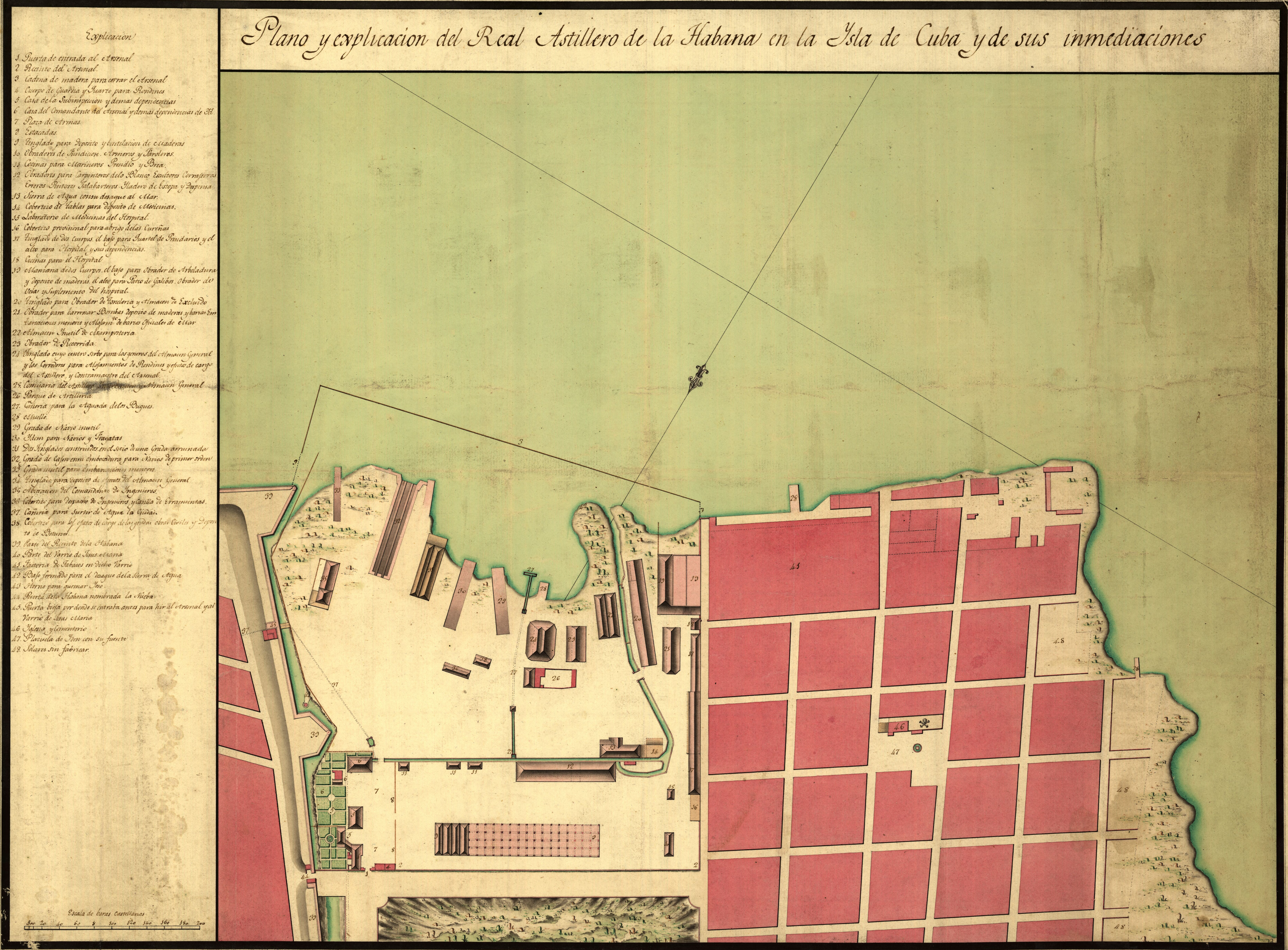 Oriented with north toward the lower left. Watermark: C. & I. Honig. Pen-and-ink and watercolor. Mounted on cloth backing. LC Luso-Hispanic World, 354 Indexed. Maggs number annotated in pencil in lower right margin: 106. Annotated in blue ink on sticker on verso: 6883-11. Available also through the Library of Congress Web site as a raster image. Latin American Atlantic port cities exhibit #11 Vault